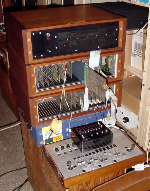 Synclavier I with original three wood 19" rack, dual 5 1/4" floppy drives, digital CPU, audio.